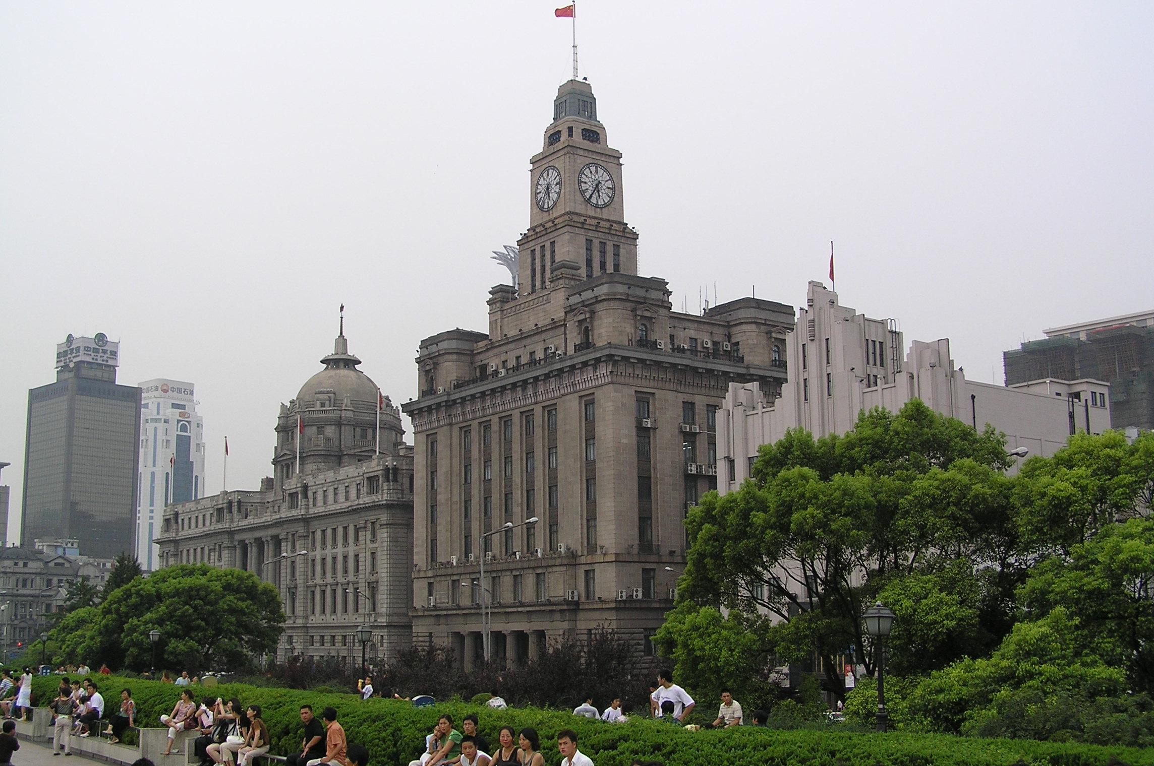 Customs House (closer) and the Hong Kong and Shanghai Bank (Shanghai, China) Author: Mr. Tickle Date: 07/28, 2005